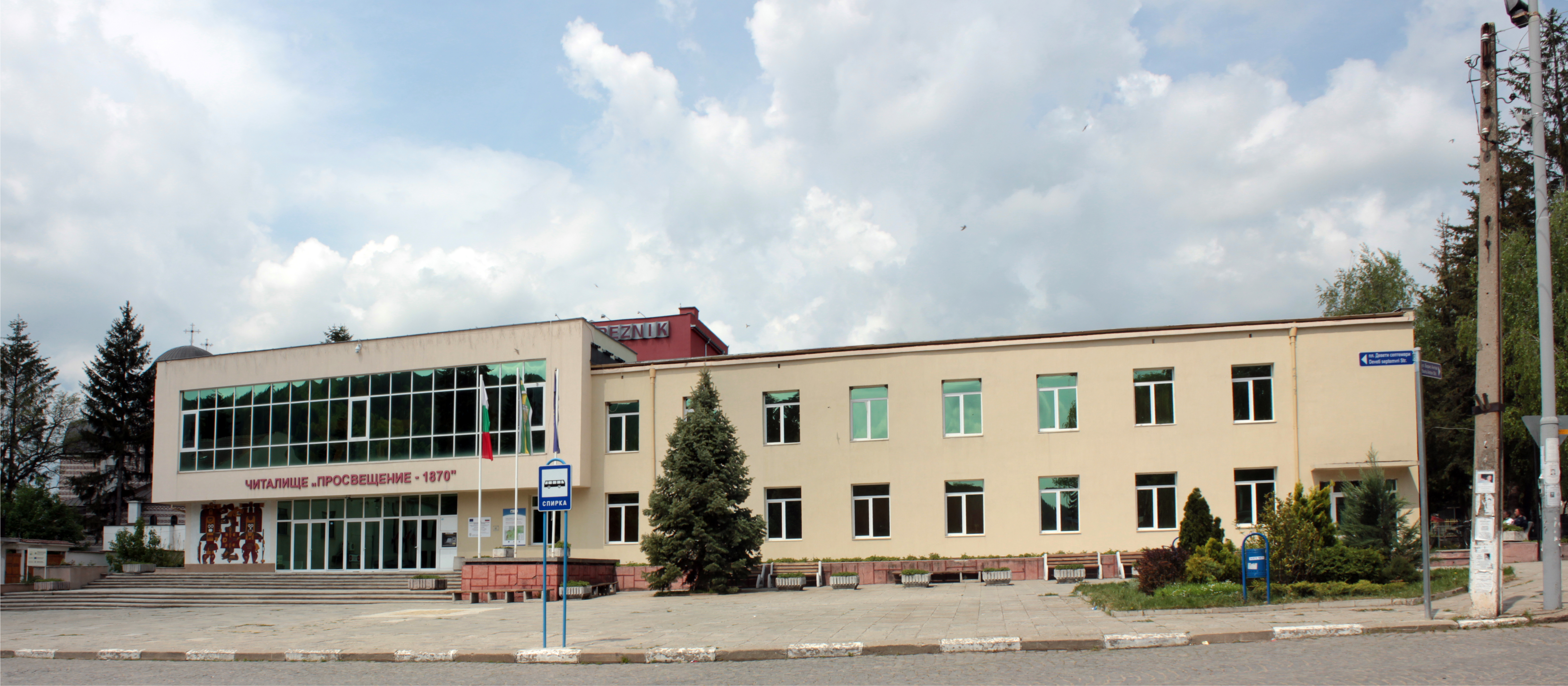 Chitalishte (Cultire club) in Breznik